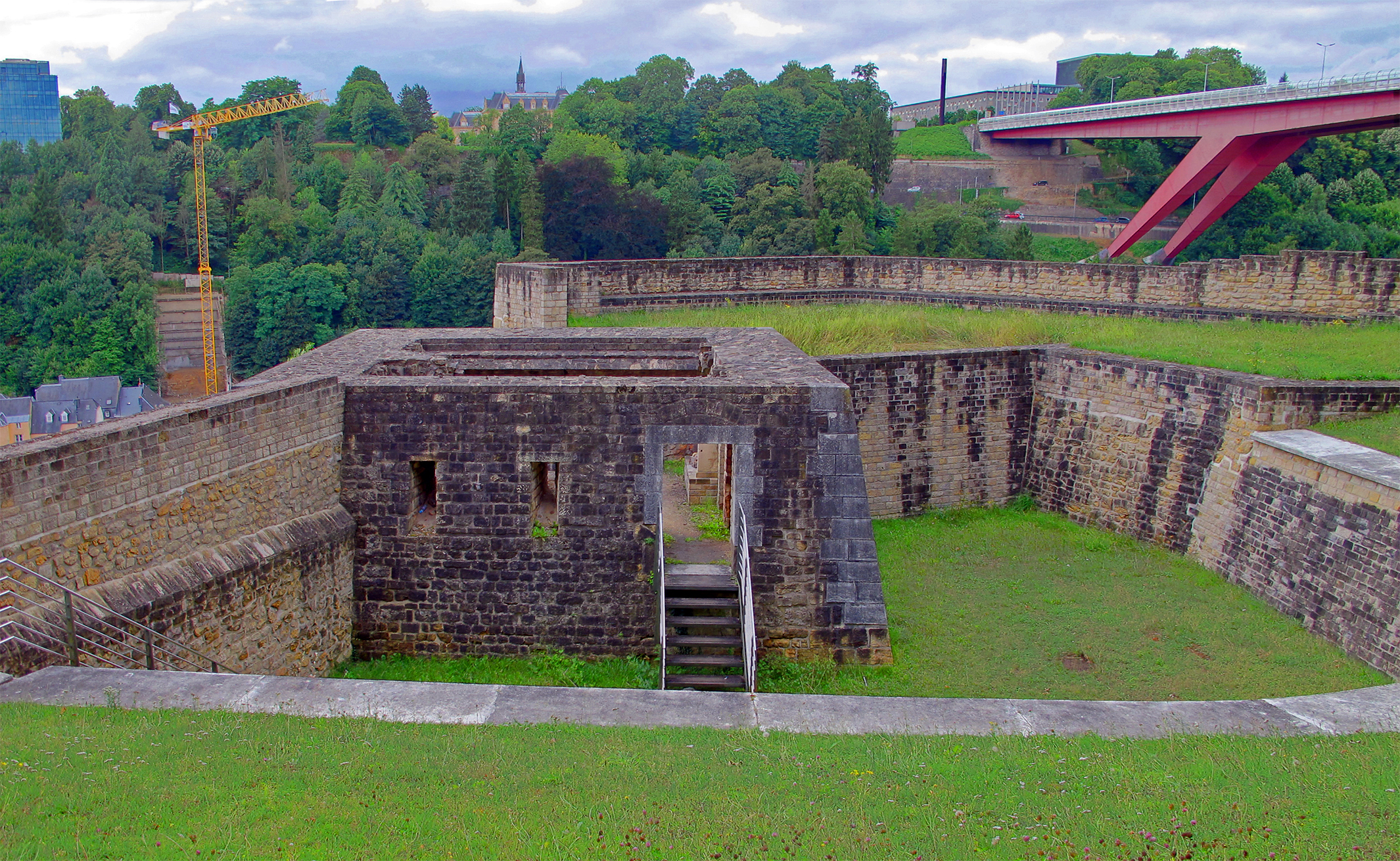 Part of the relicts of the Fort Niedergrünewald in Luxembourg